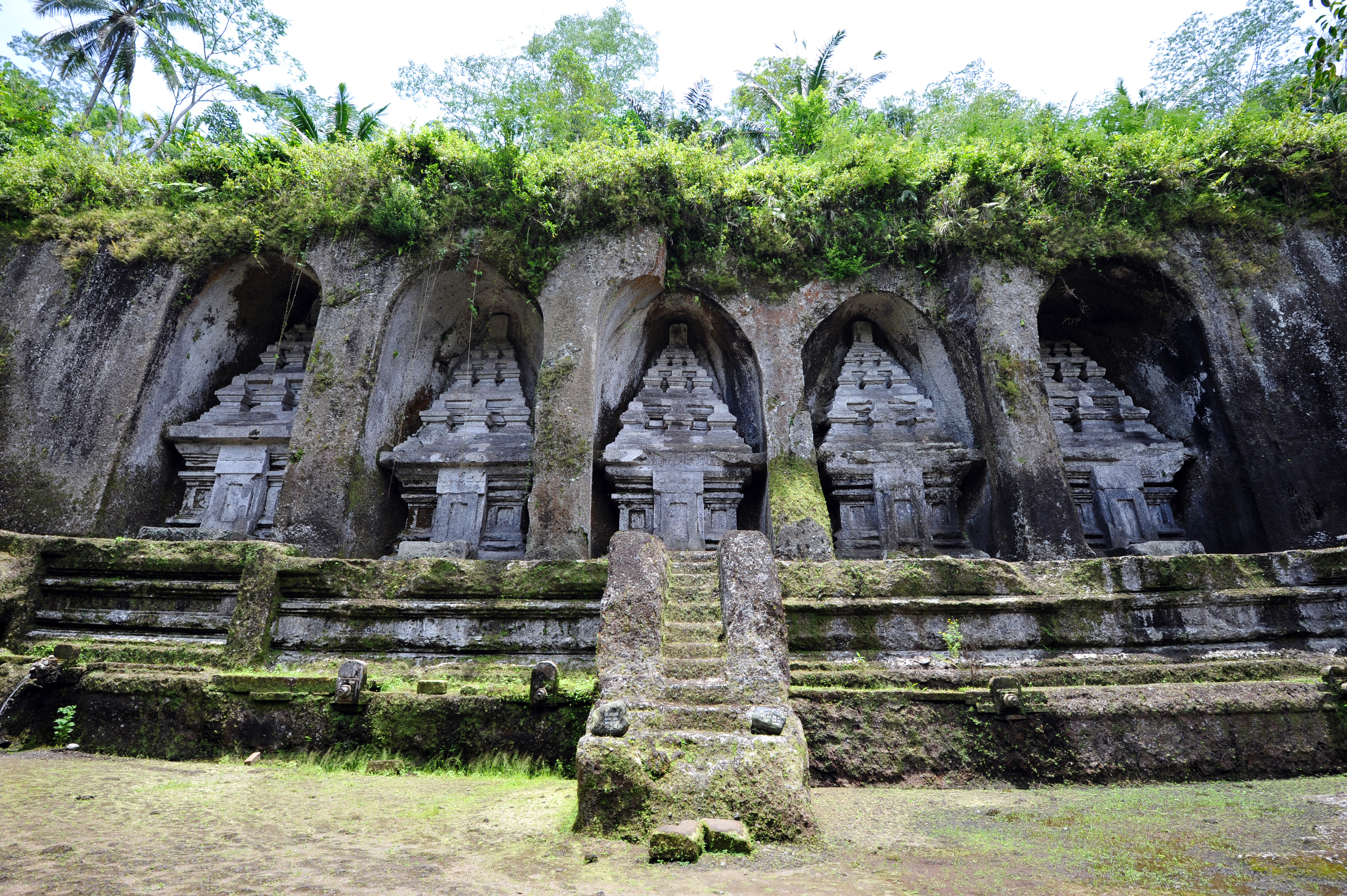 Gunung Kawi temple Bali Indonesia 2011